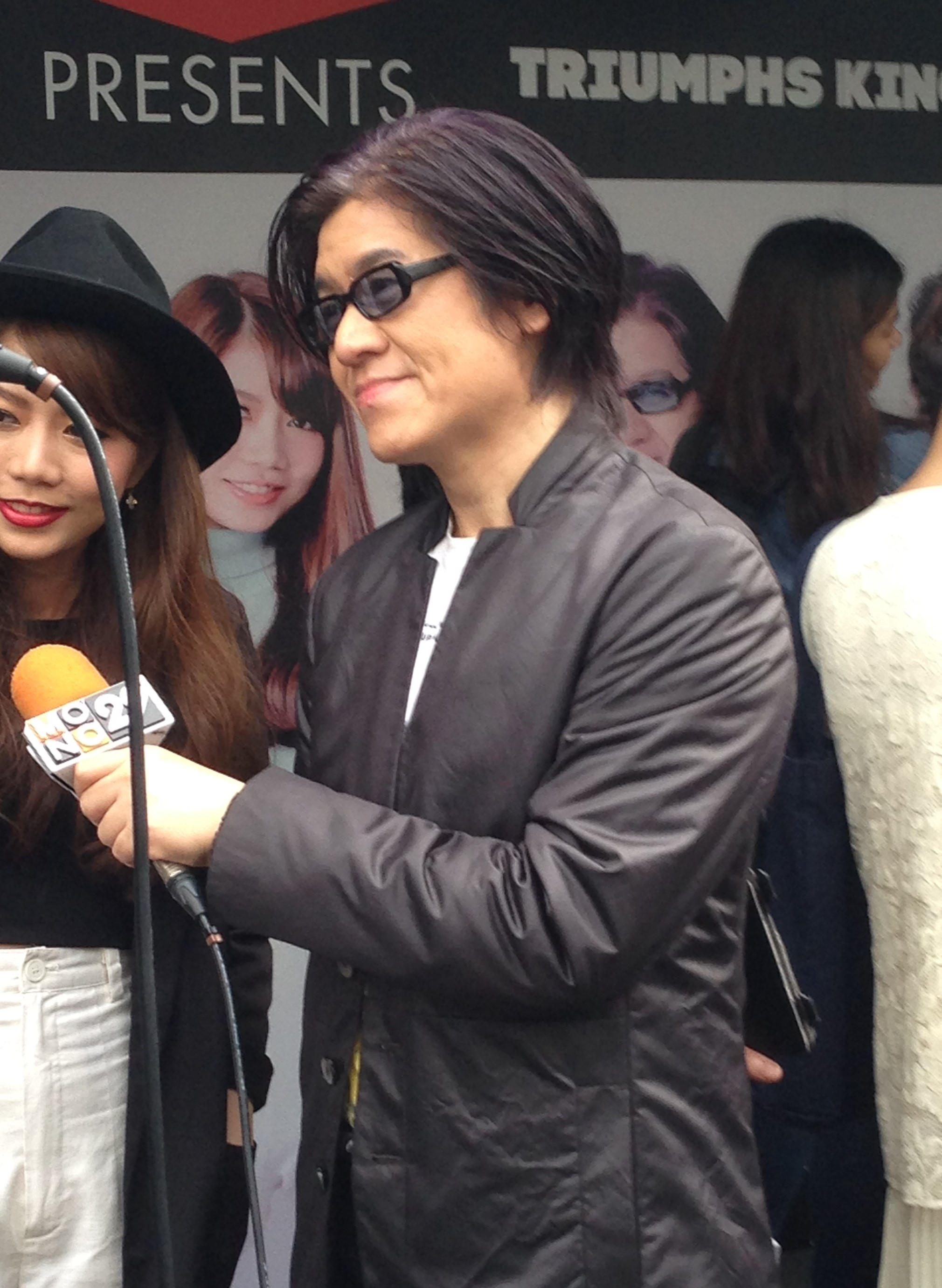 Mr.Z at press conference of Z-MYX LIVE VOL.1 WITH TRIUMPHS KINGDOM AND YOKEE PLAYBOY.